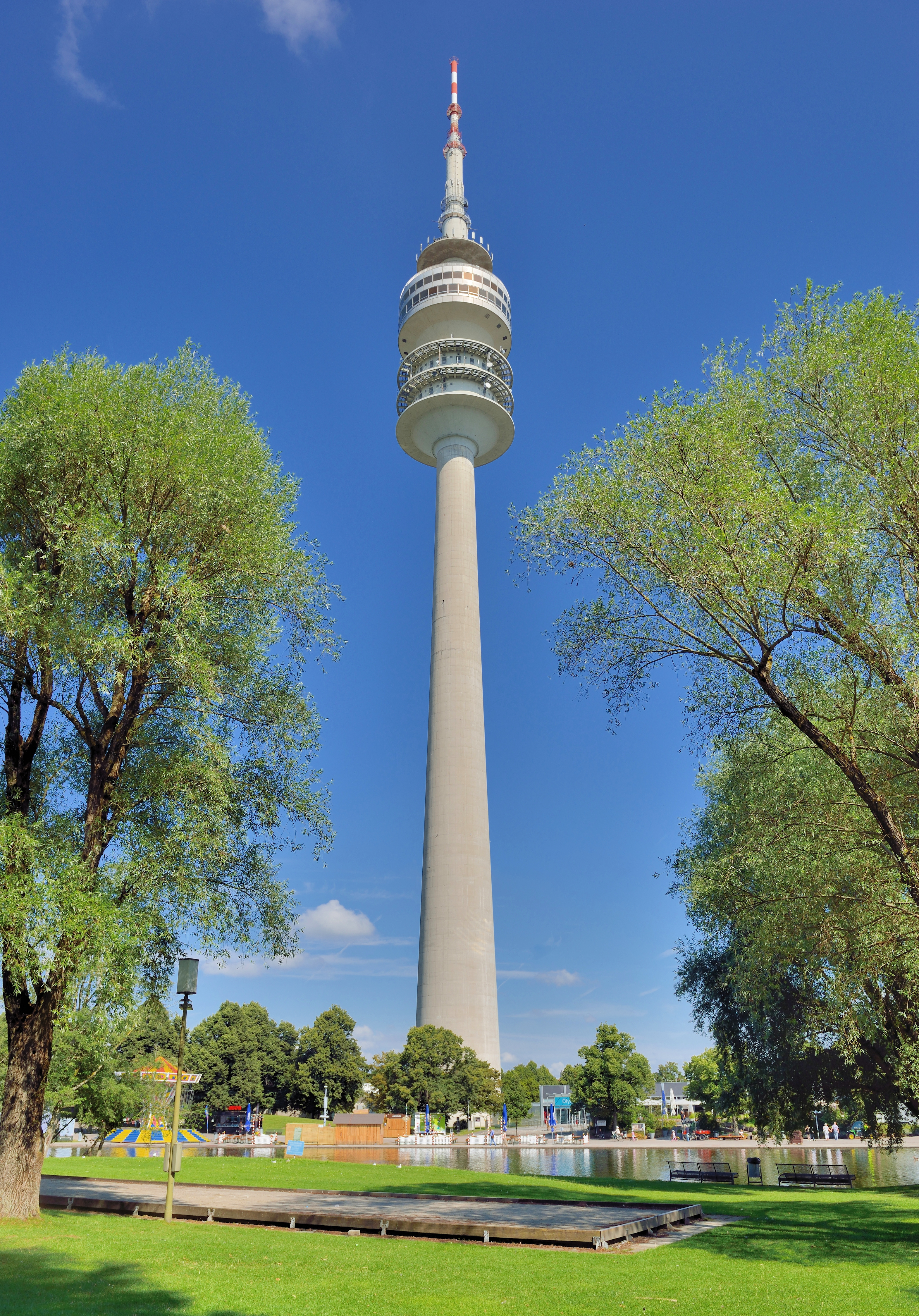 Munich: Olympic Tower